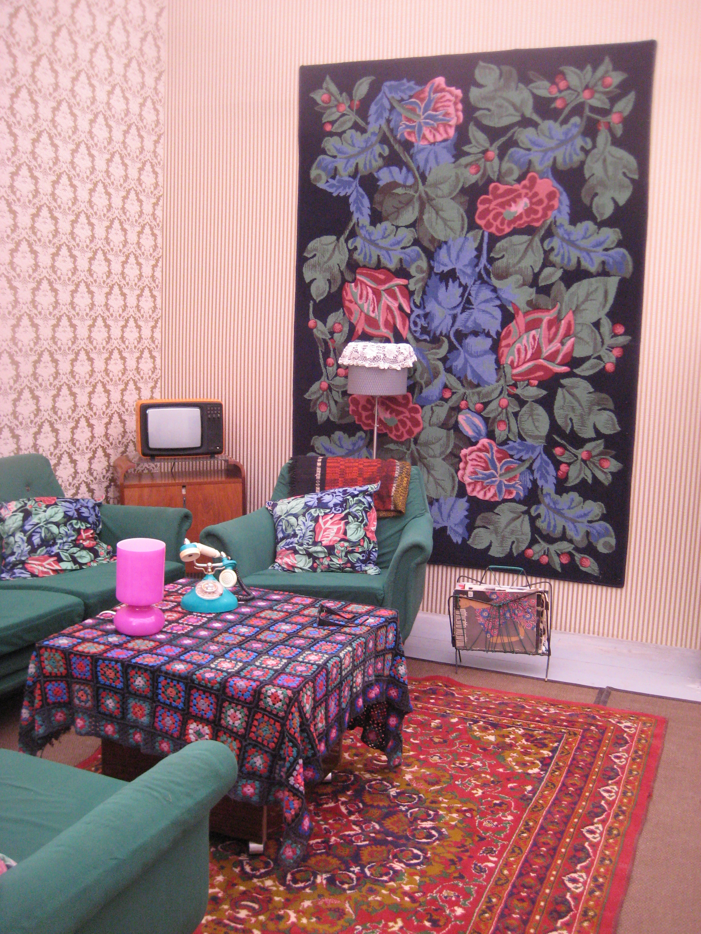 Furniture of USSR. Decorations for movie shooting.